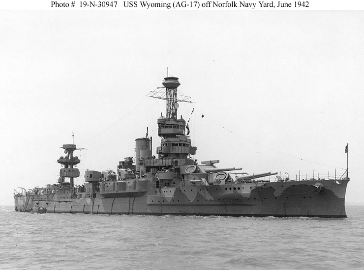 American battleship USS Wyoming (BB-32) after her conversion into a gunnery training ship, in 1942